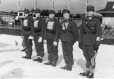 The final results was 5th position